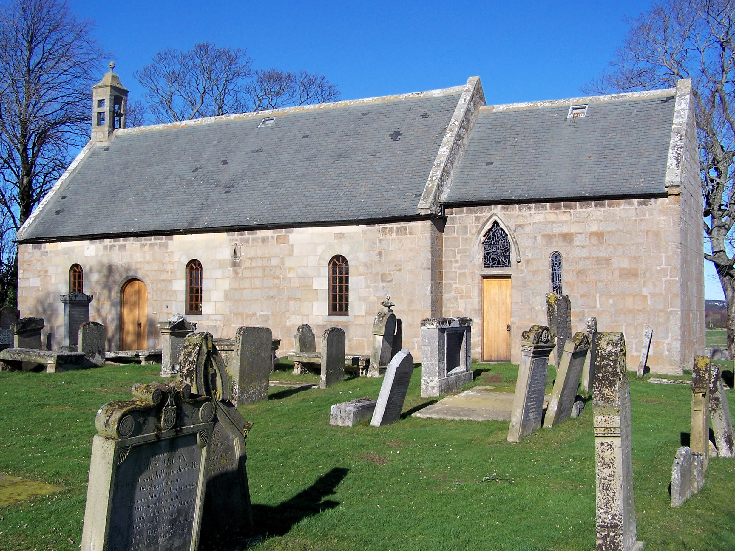 The Birnie Kirk church in Moray, Scotland. Photo by Bill Reid